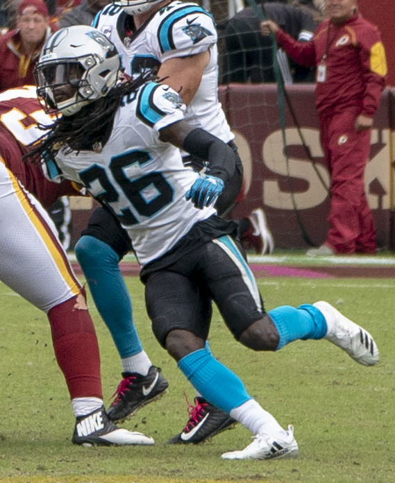 Dustin Hopkins of the Washington Redskins kicks a field goal against the Carolina Panthers during a 2018 game at FedEx Field